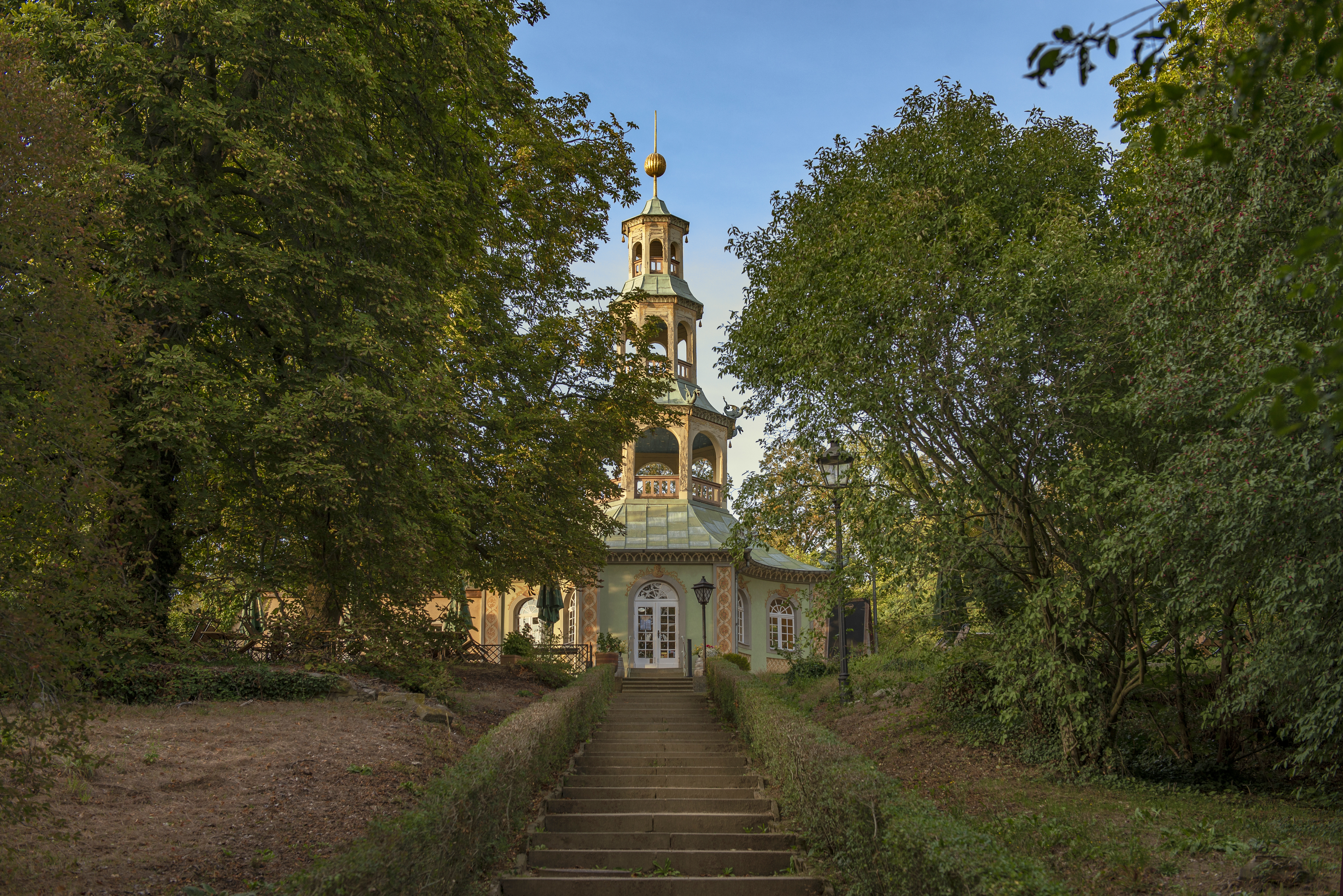 Dragon House